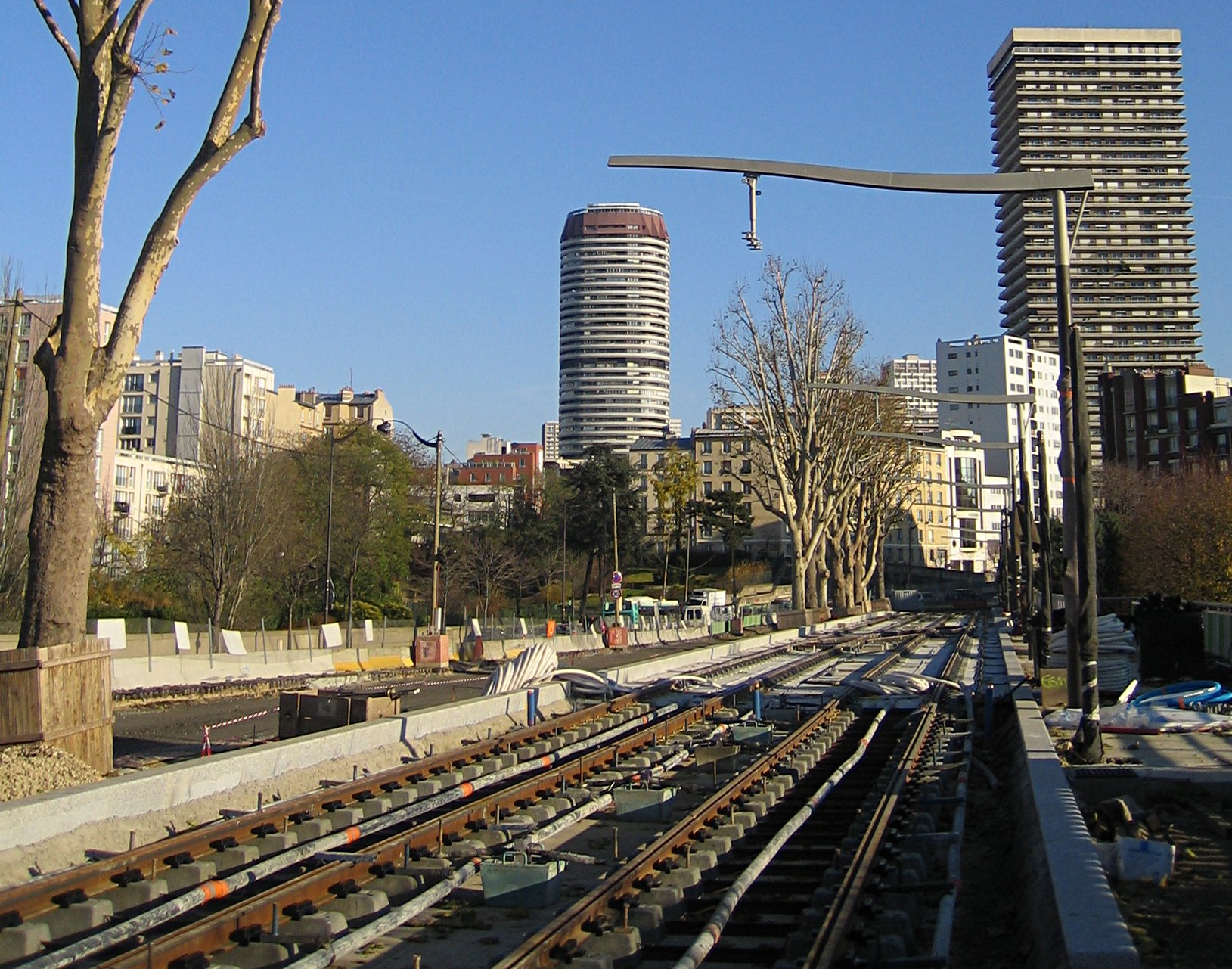 (future) tramway station of Poterne des Peupliers, Paris XIIIe.